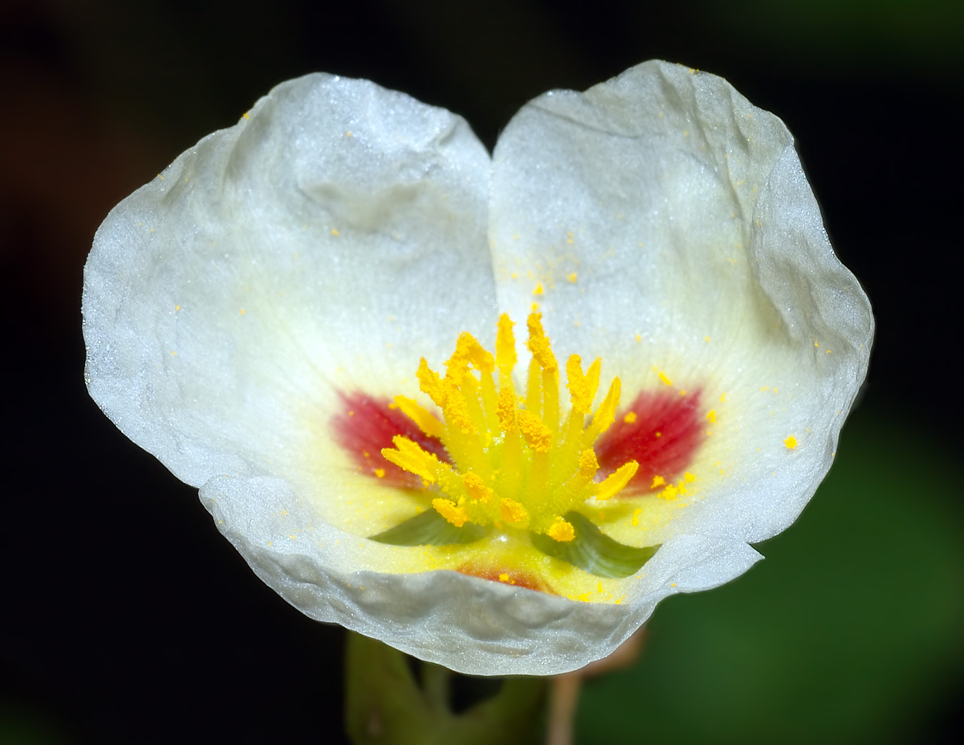 This image shows a plant of the species Giant Arrowhead (Sagittaria montevidensis).